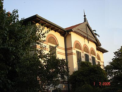 A 19th century Levantine building in Buca, İzmir, Turkey